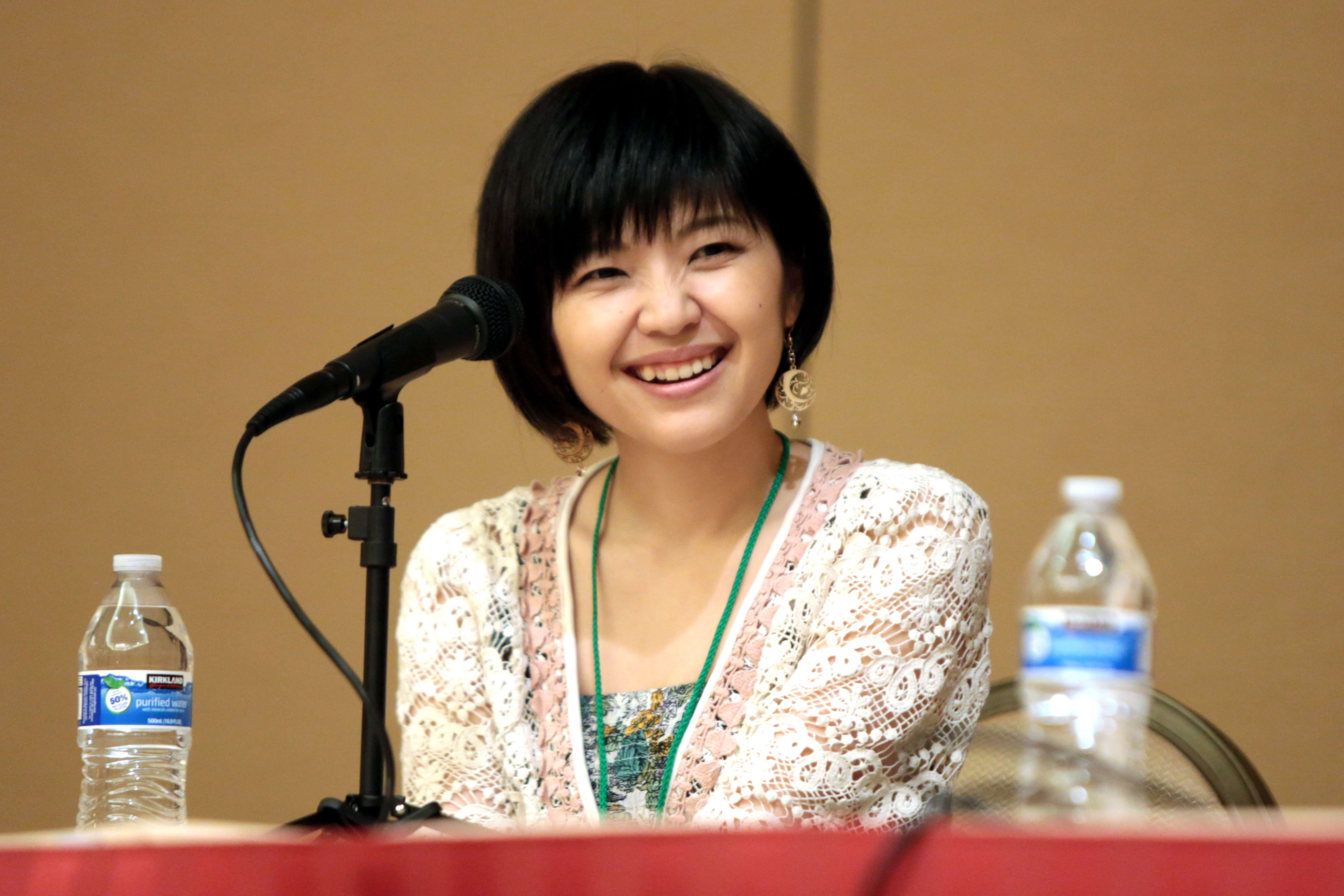 Mika Kobayashi speaking at Saboten Con in Phoenix, Arizona.